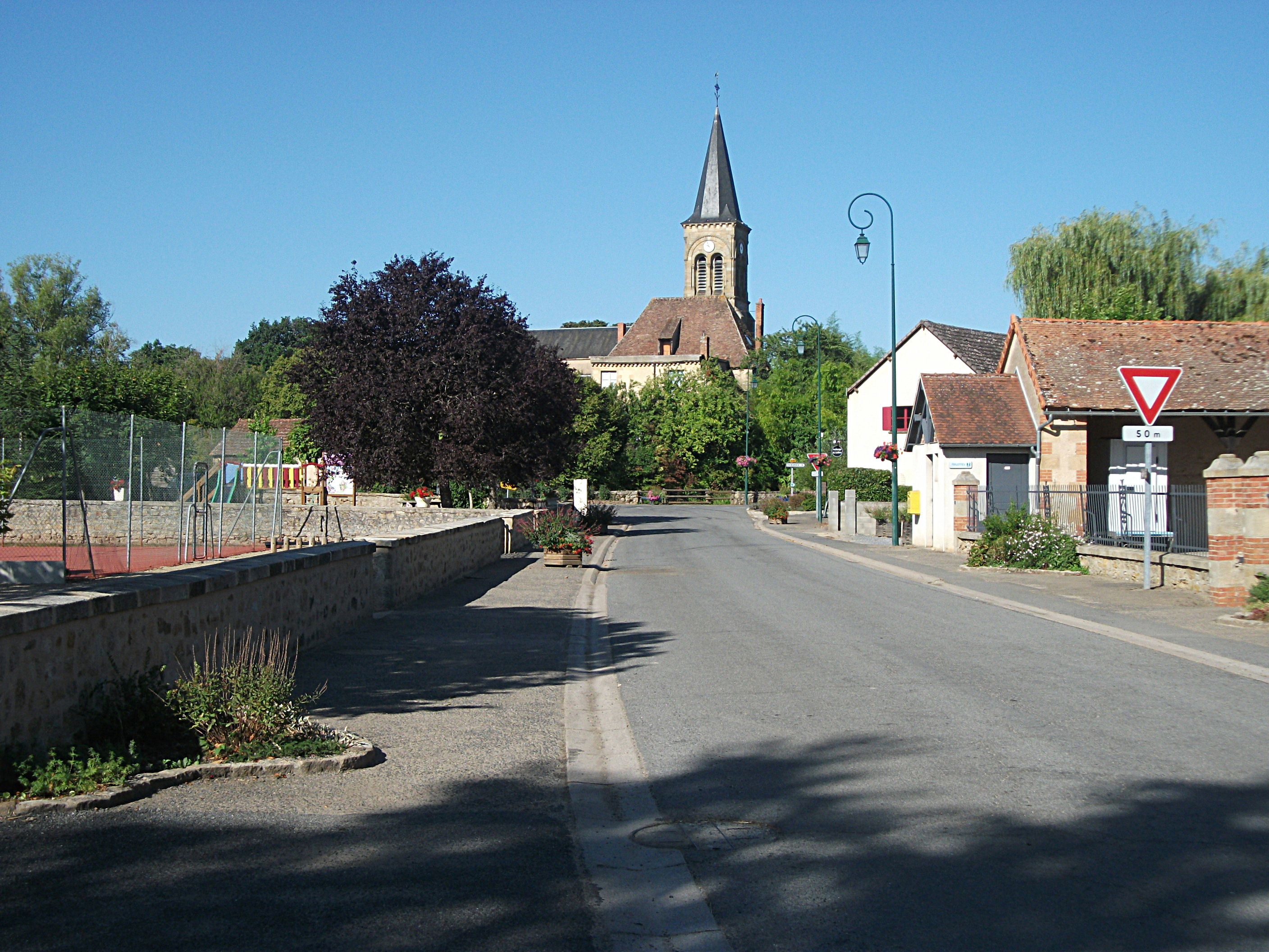 View of church of Saint-Aubin-le-Monial from Bourbon-l'Archambault road (rue des Écoles, D 492). [16687]